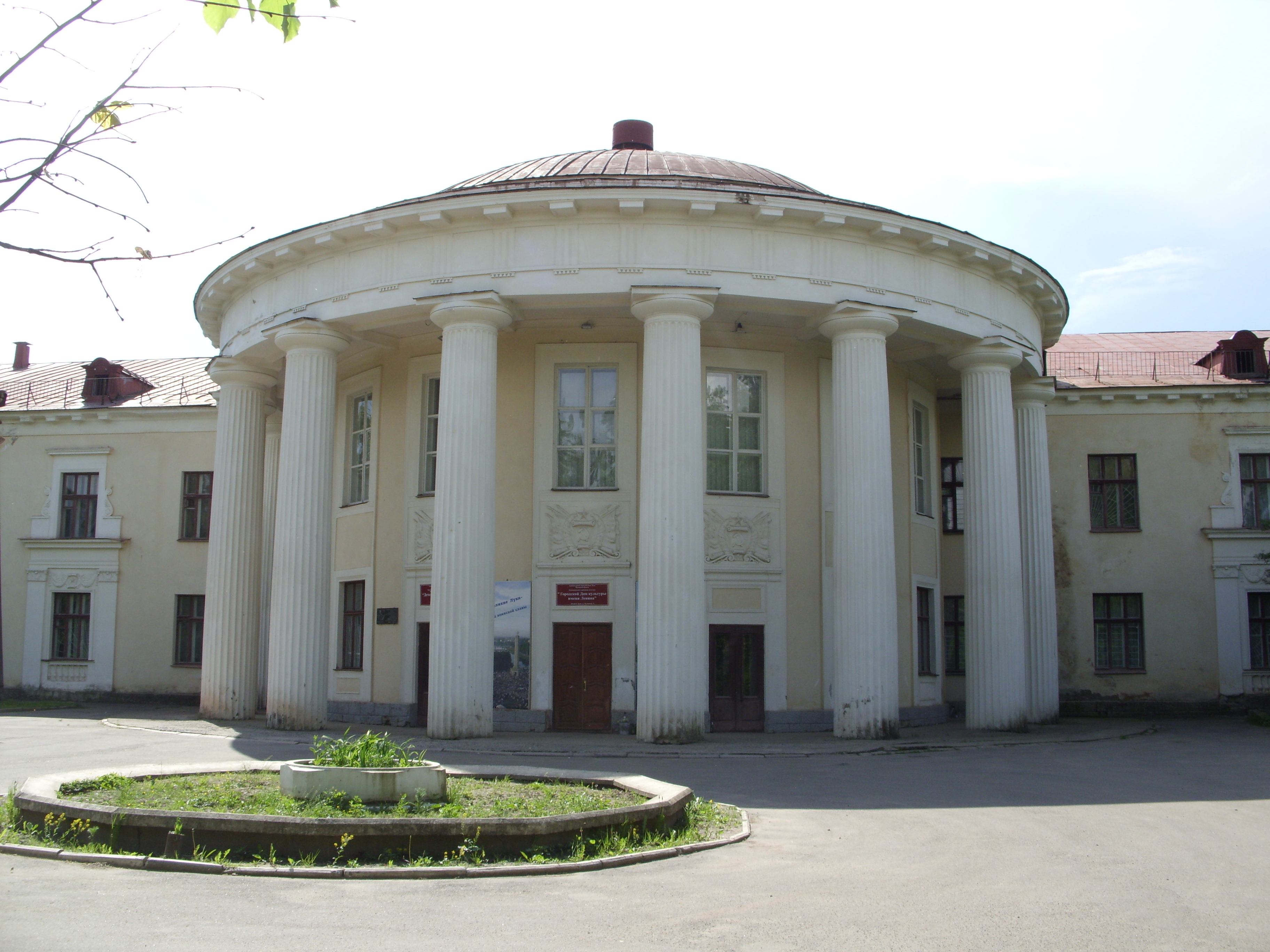 Dom_kultury_imLenina_VelLuki_mai2010-1